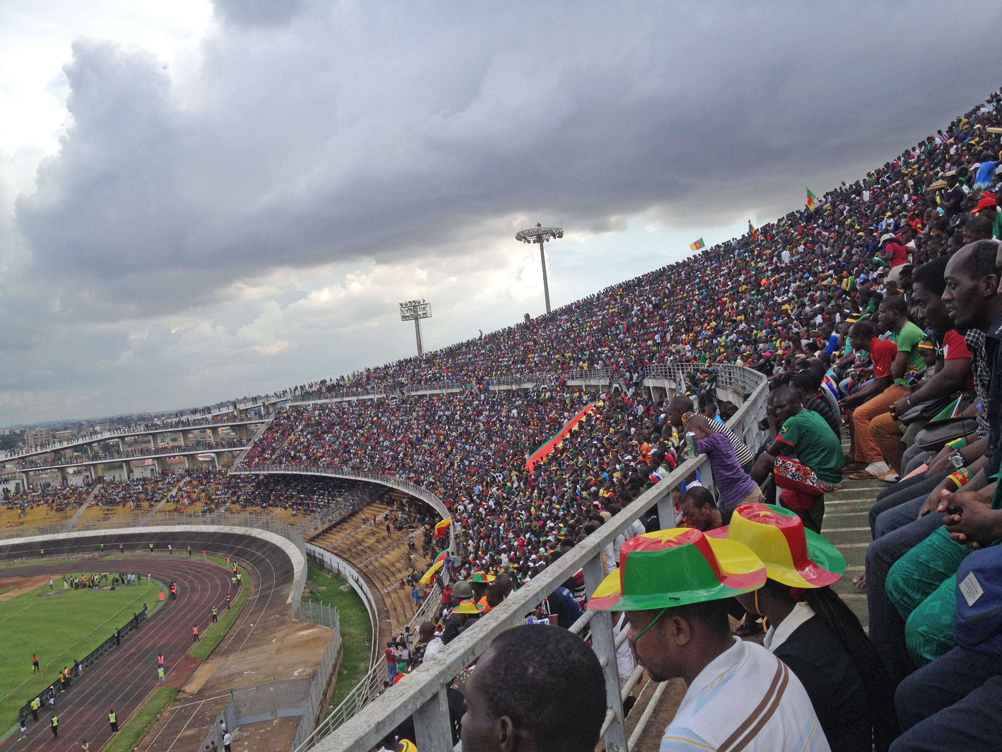 Ahmadou Ahidjo Stadion in Yaounde during a match between the national football team of Cameroon with the national football team of Sierra Leone (qualifications match for the African Cup of Nations 2015).